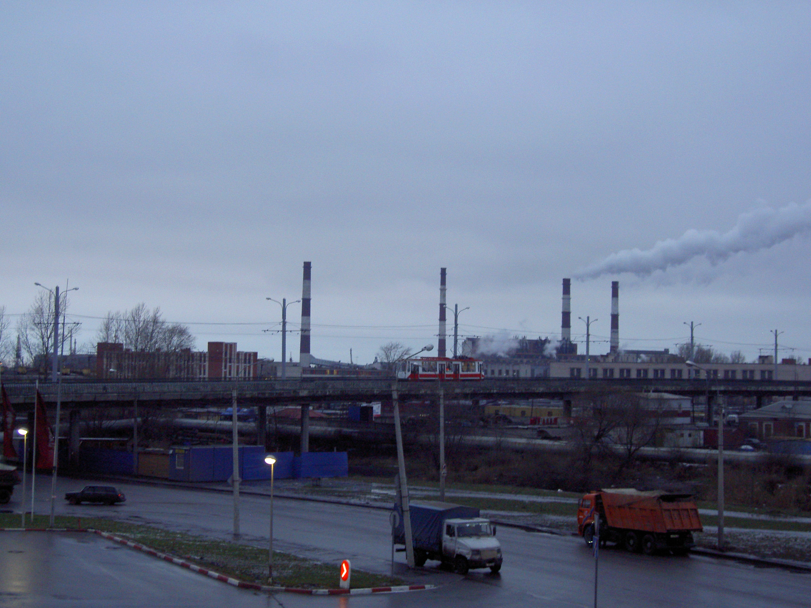 Tram viaduct at Avtovo